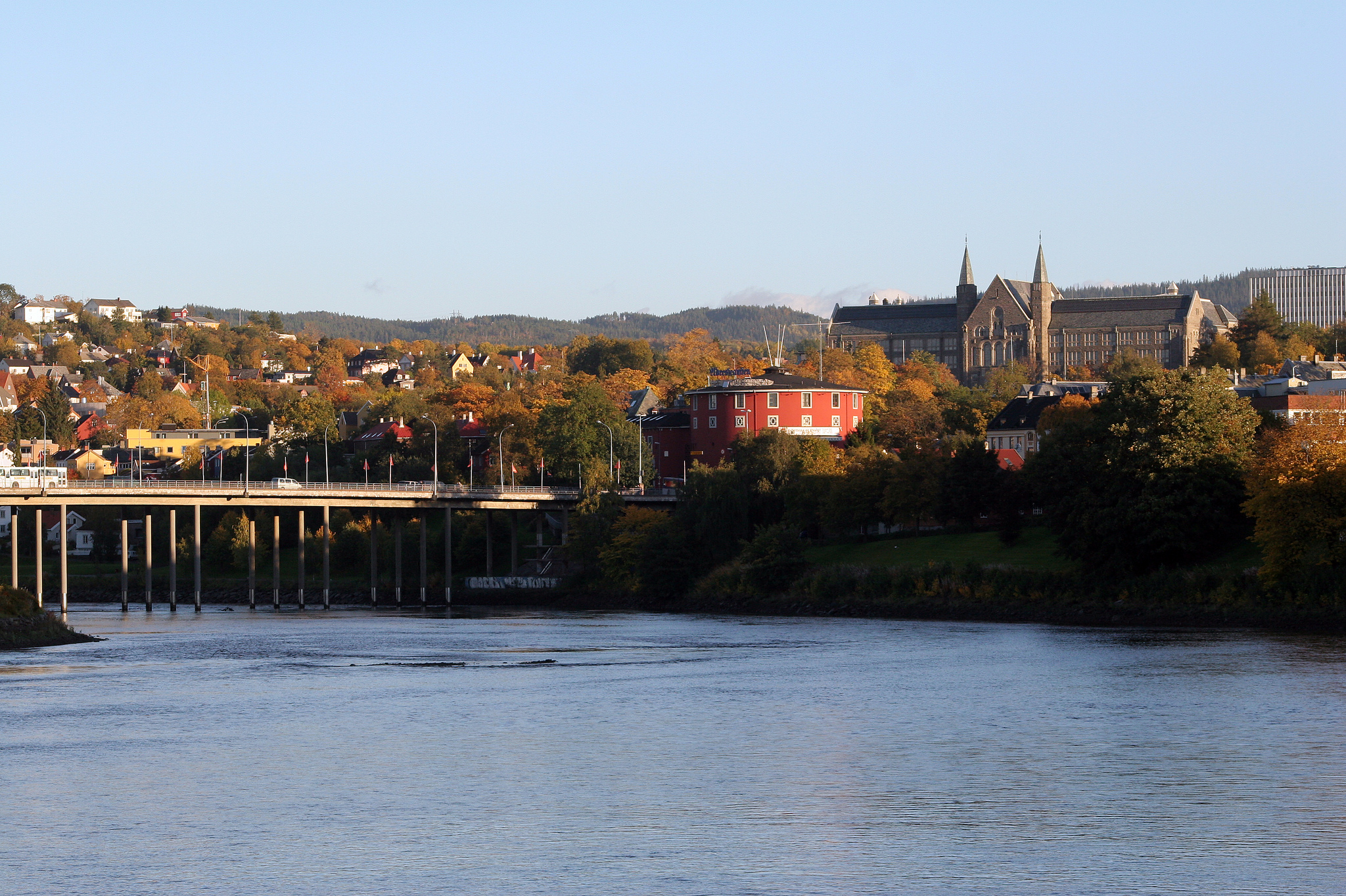 Elgeseter bridge, the students' society in Trondheim (red building) and the main building at campus NTNU Gløshaugen